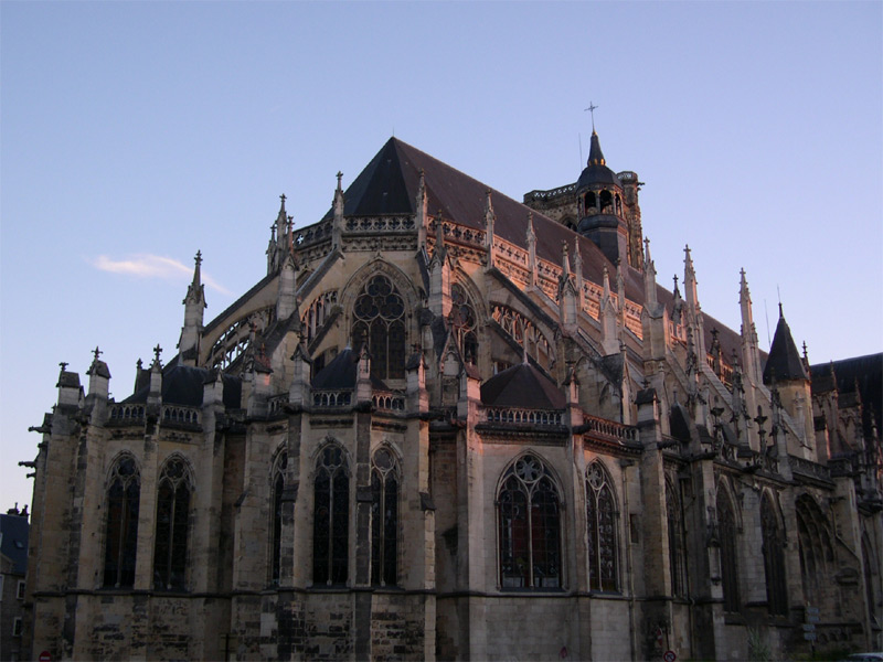 Nevers, Cathedrale, Chevet